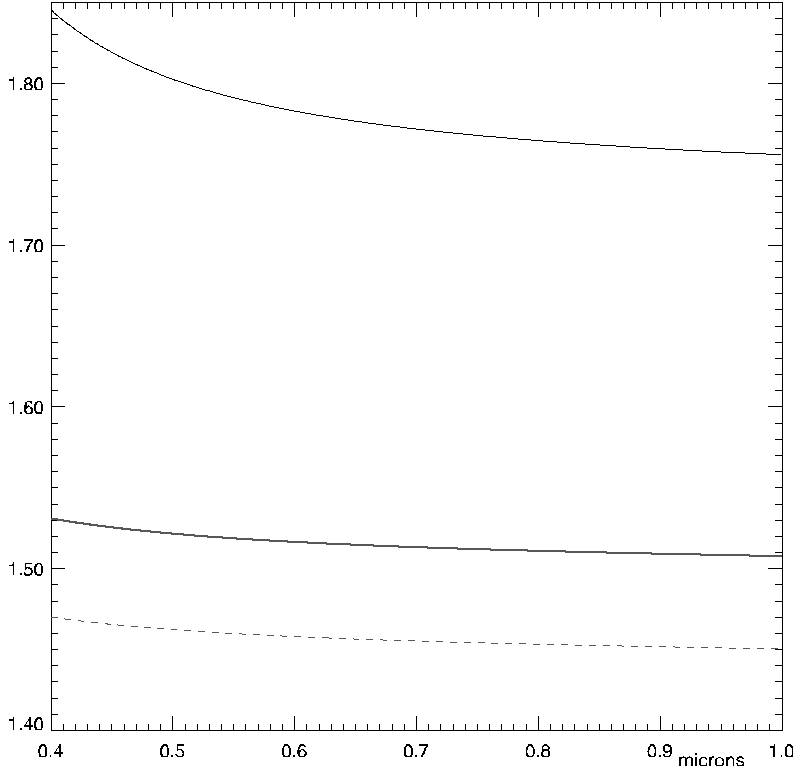 The refractive index vs. wavelength for (top to bottom) SF-11 flint glass, BK-7 borosilicate glass, and fused quartz.